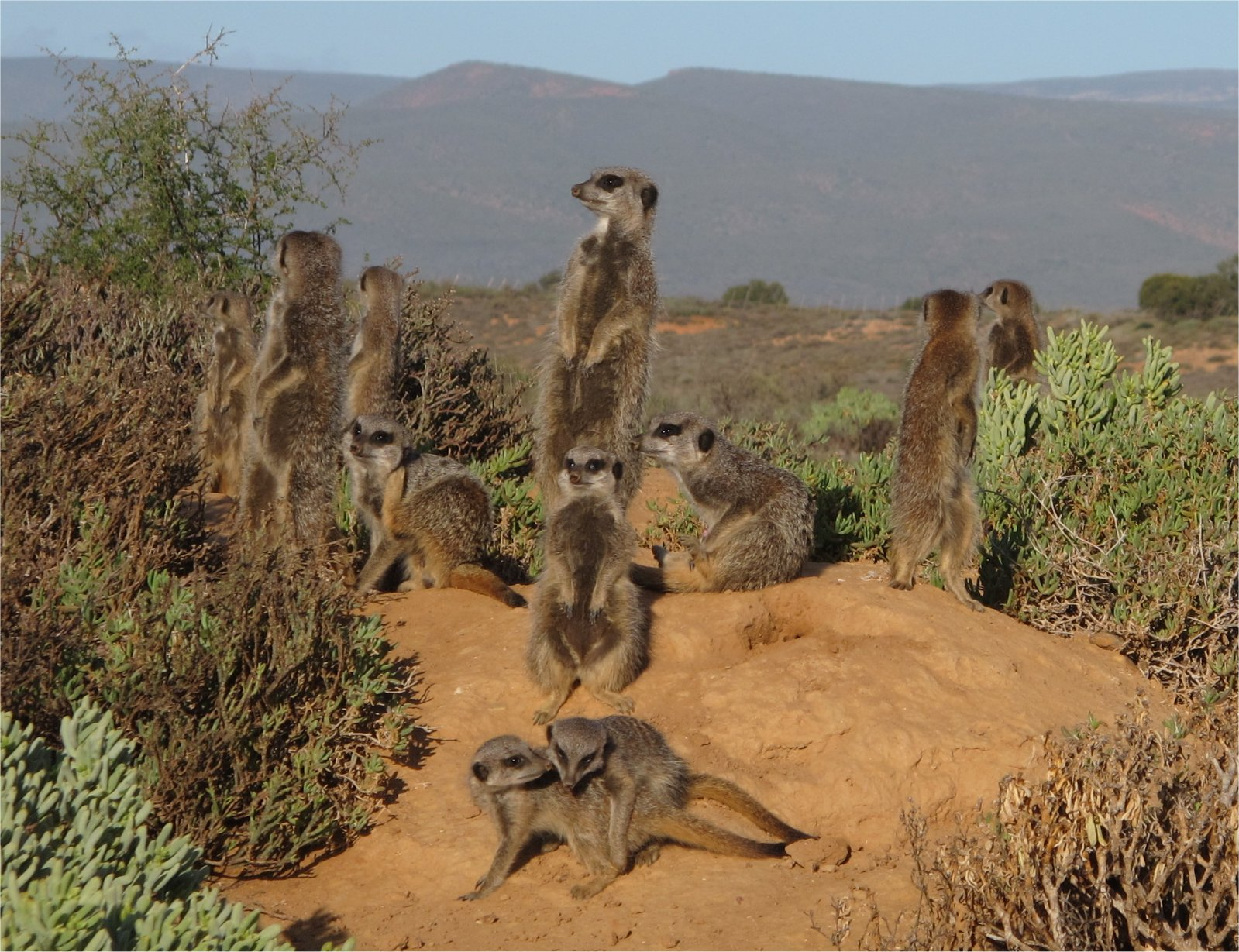 Family of Meerkat near Oudtshoorn, South Africa